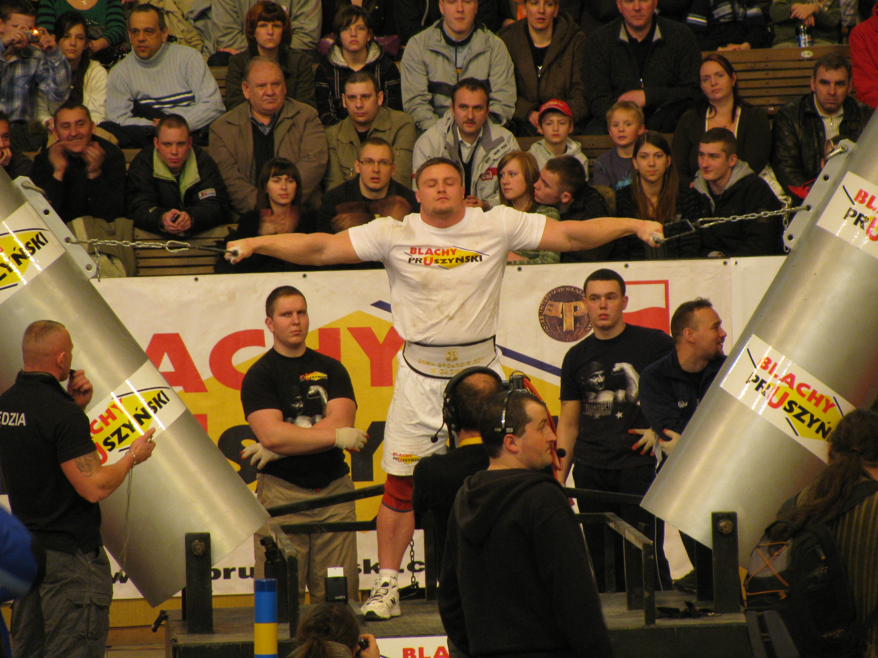 Krzysztof Radzikowski - a Polish strength athlete during the Battle of The Giants competition, Poland, Łódź City, february 2009